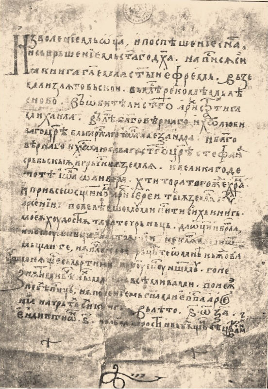 Lesnovian Paraenesis from 1353. 317 ff., parchment, Cyrillic semiuncial, single jus and two juses orthography of Kratovo